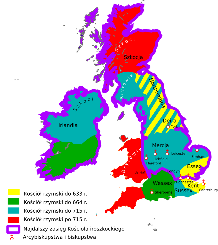 Christianity in Britain in 7th century AD